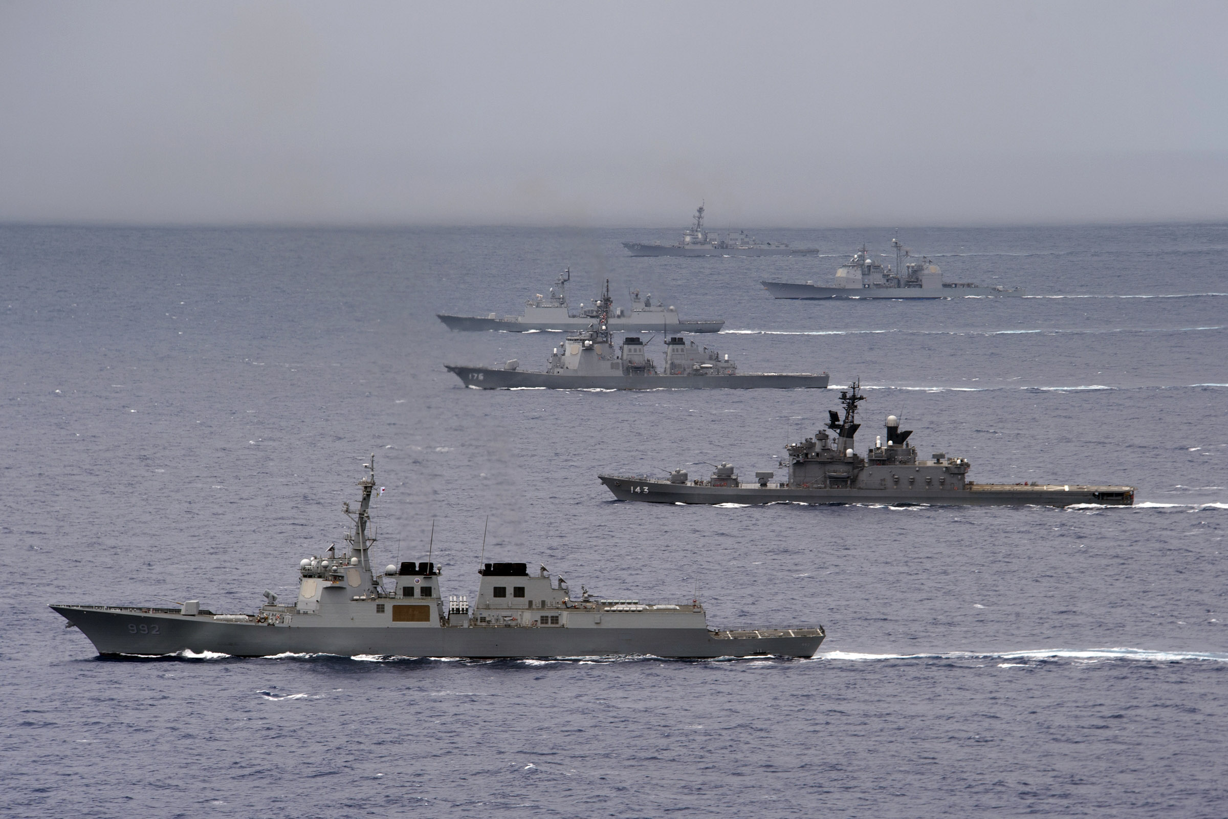 PACIFIC OCEAN (Aug. 7, 2012) A formation of ships from the U.S. Navy, U.S. Coast Guard, Japan Maritime Self-Defense Force, and the Republic of Korea Navy maneuver in the Pacific Ocean during a trilateral exercise (TRILATEX). TRILATEX is intended to increase interoperability, operational proficiency and readiness between partnering nations. (U.S. Navy photo by Chief Mass Communication Specialist Keith W. DeVinney/Released) 120808-N-VD564-199 Join the conversation navylive.dodlive.mil